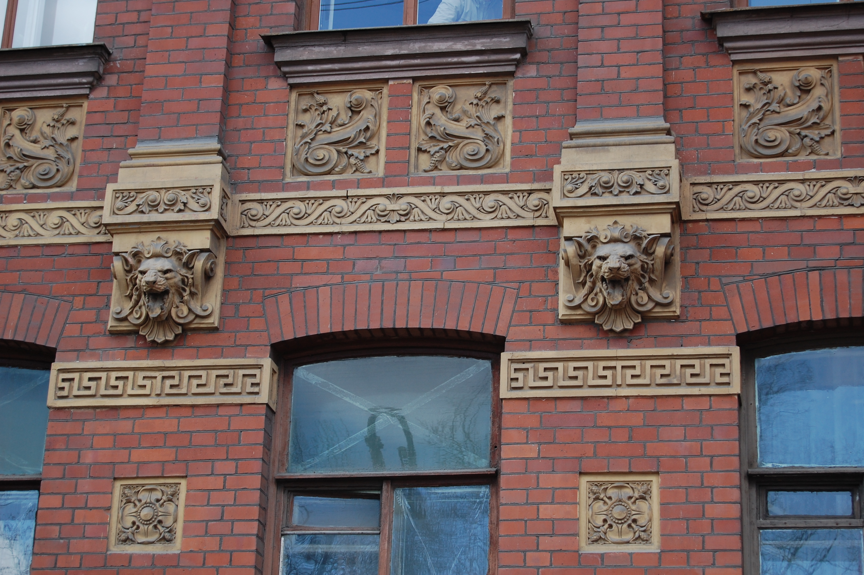 Cavos House in St-Petersburg by architect Leon Benois (1896-1897) and Vasily Androsov (1907-1908)